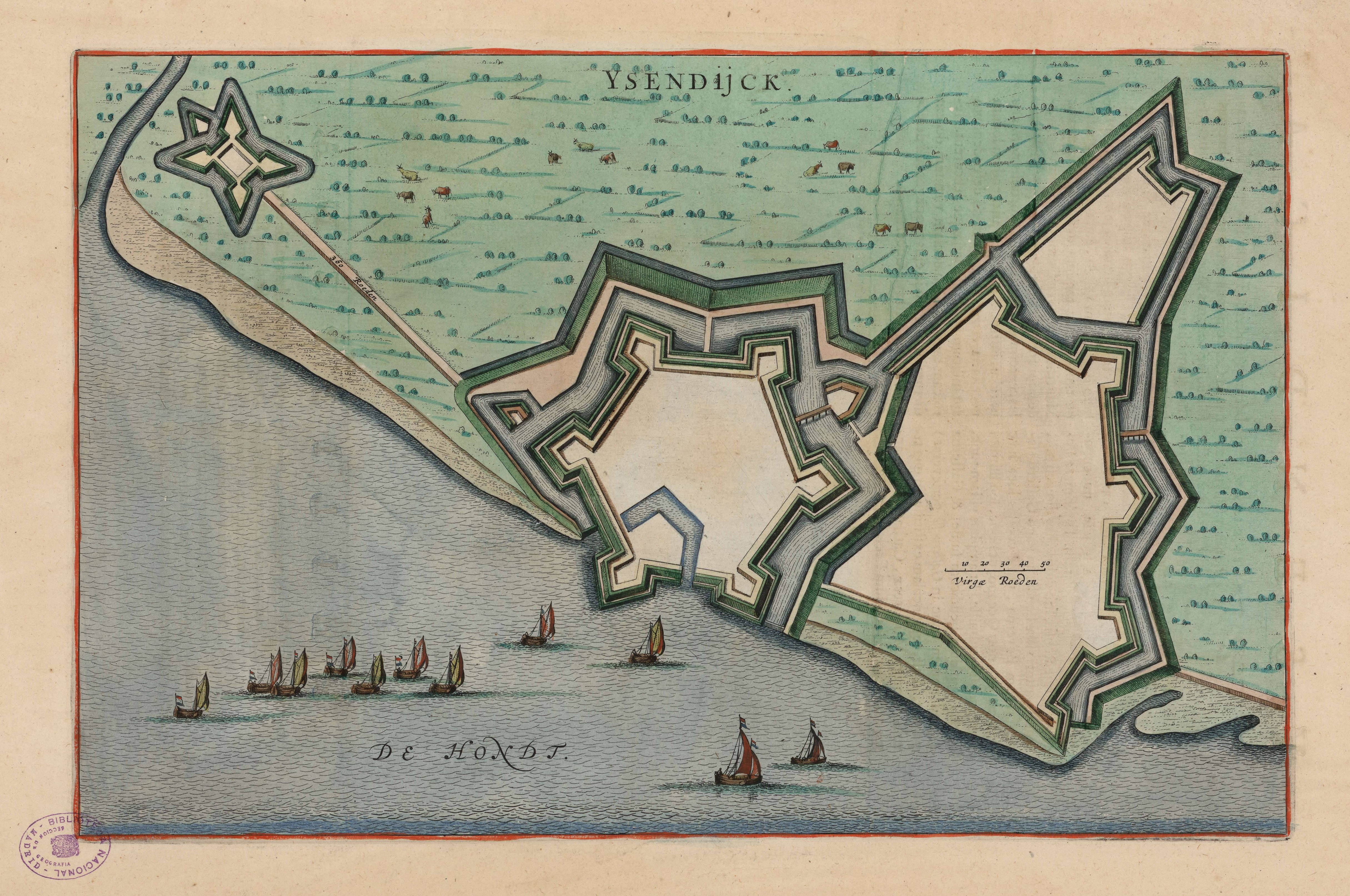 title=Ysendycke;size=